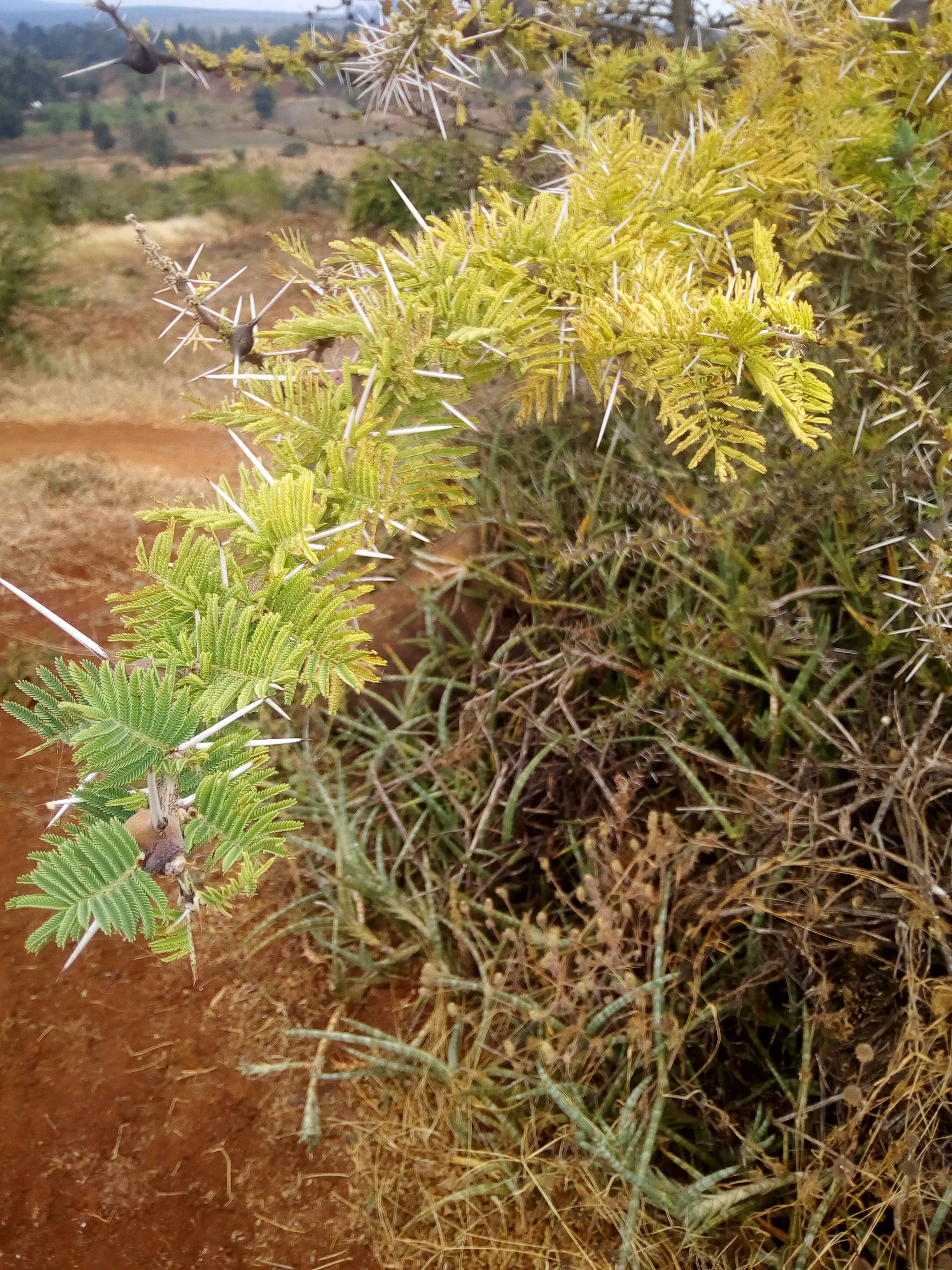 That is natural acasia trees in Kilimanjaro, North Tanzania, is the part of the remaining natural trees in that area.